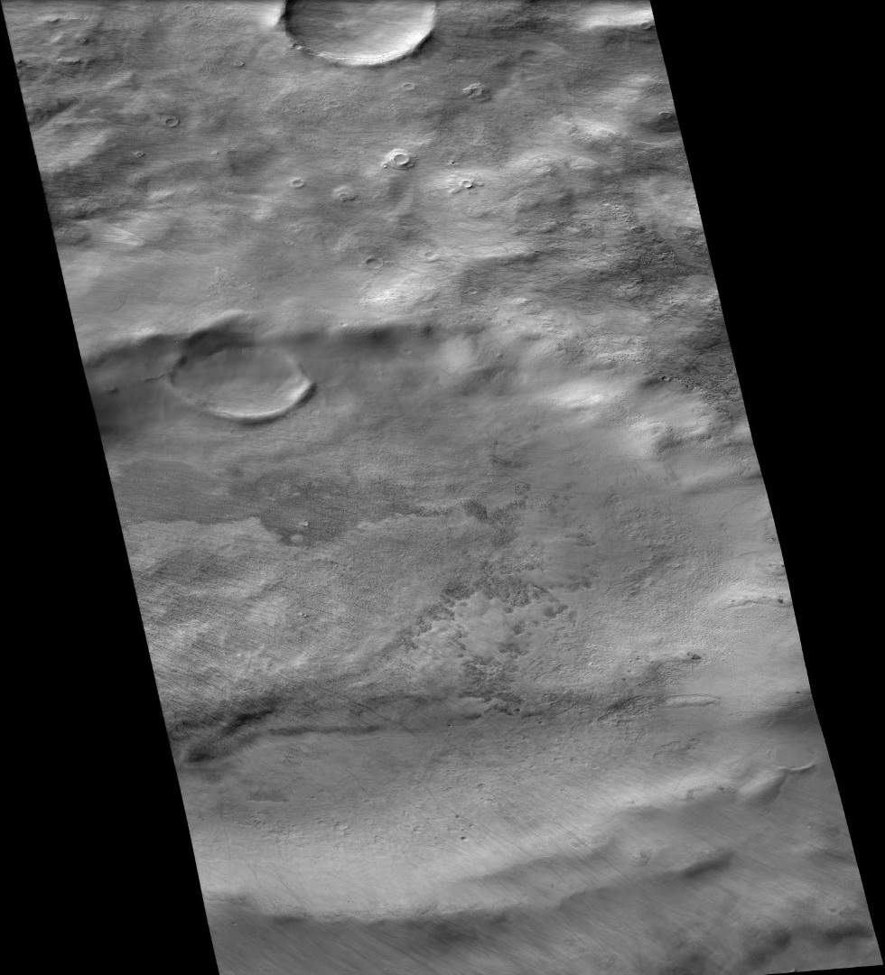 Priestly Crater, as seen by ctx